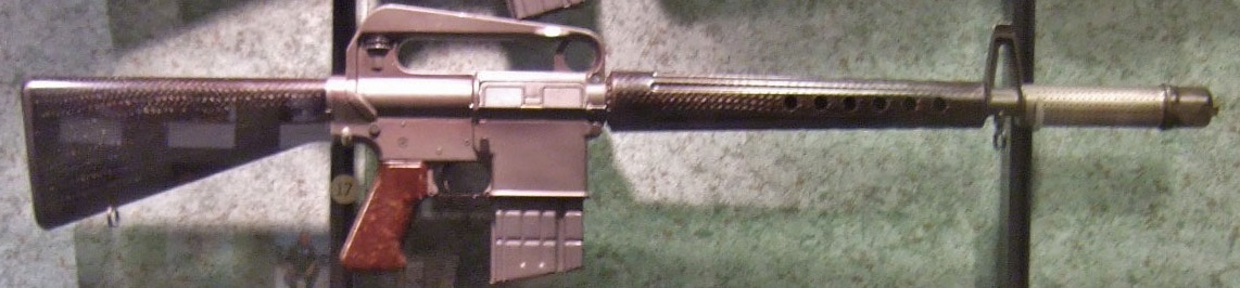 AR-10 in the National Firearms Museum